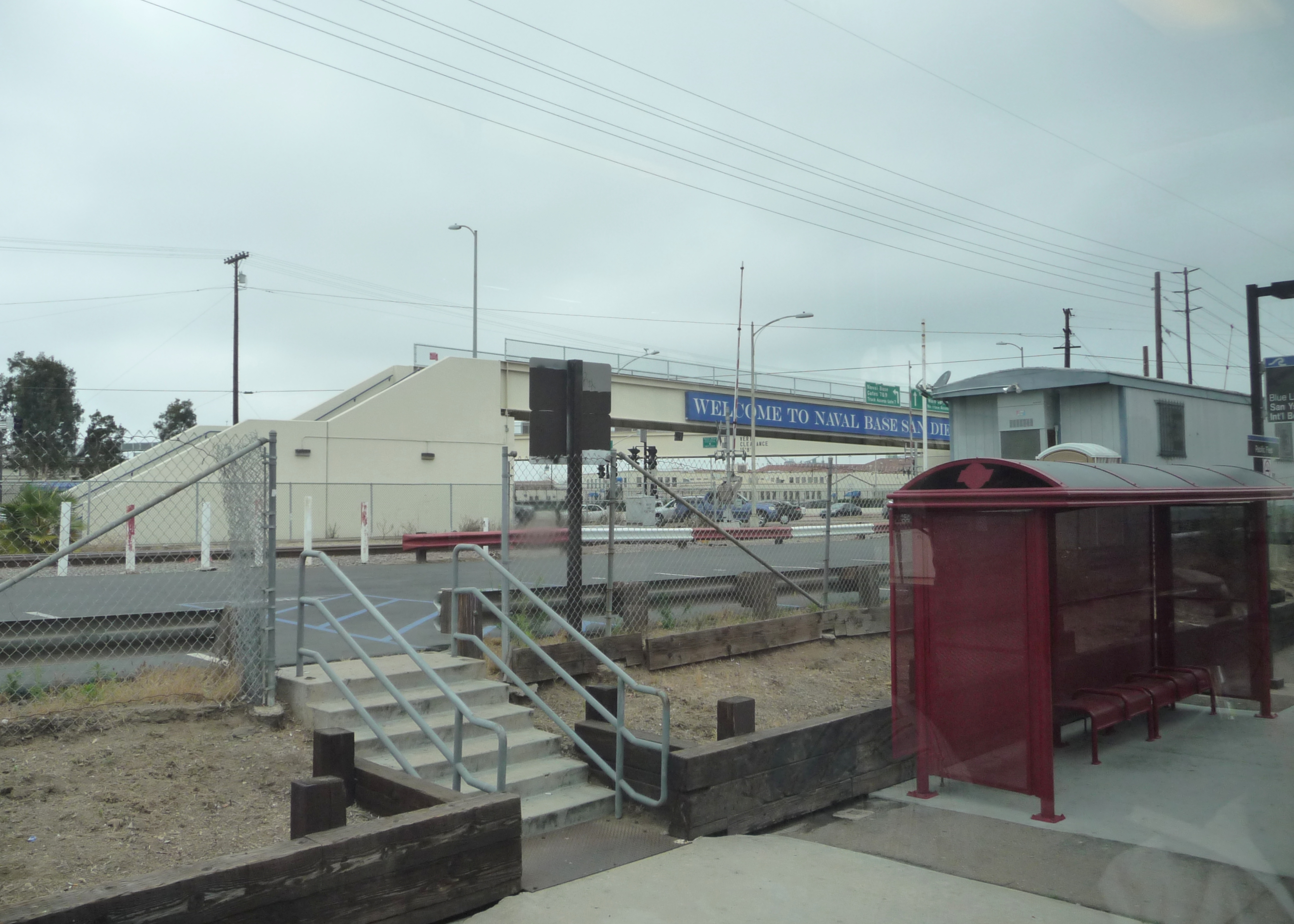 Welcome to Naval Base San Diego - pacific fleet stop on the blue trolley line